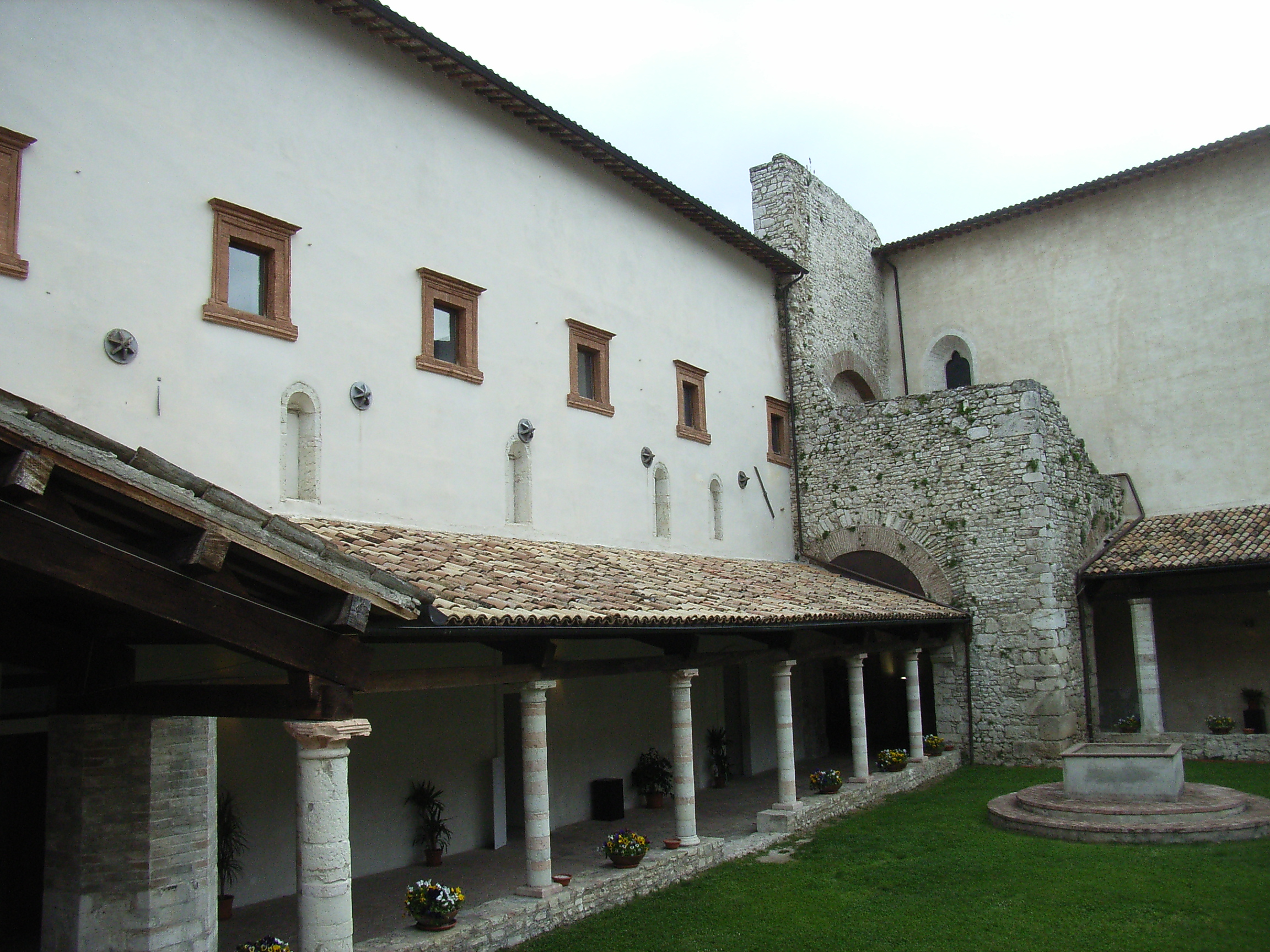 Spoleto (Italy): Chiostro de San Nicolò